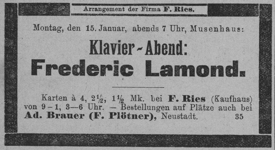 Scan from the Dresdner Journal, 1906